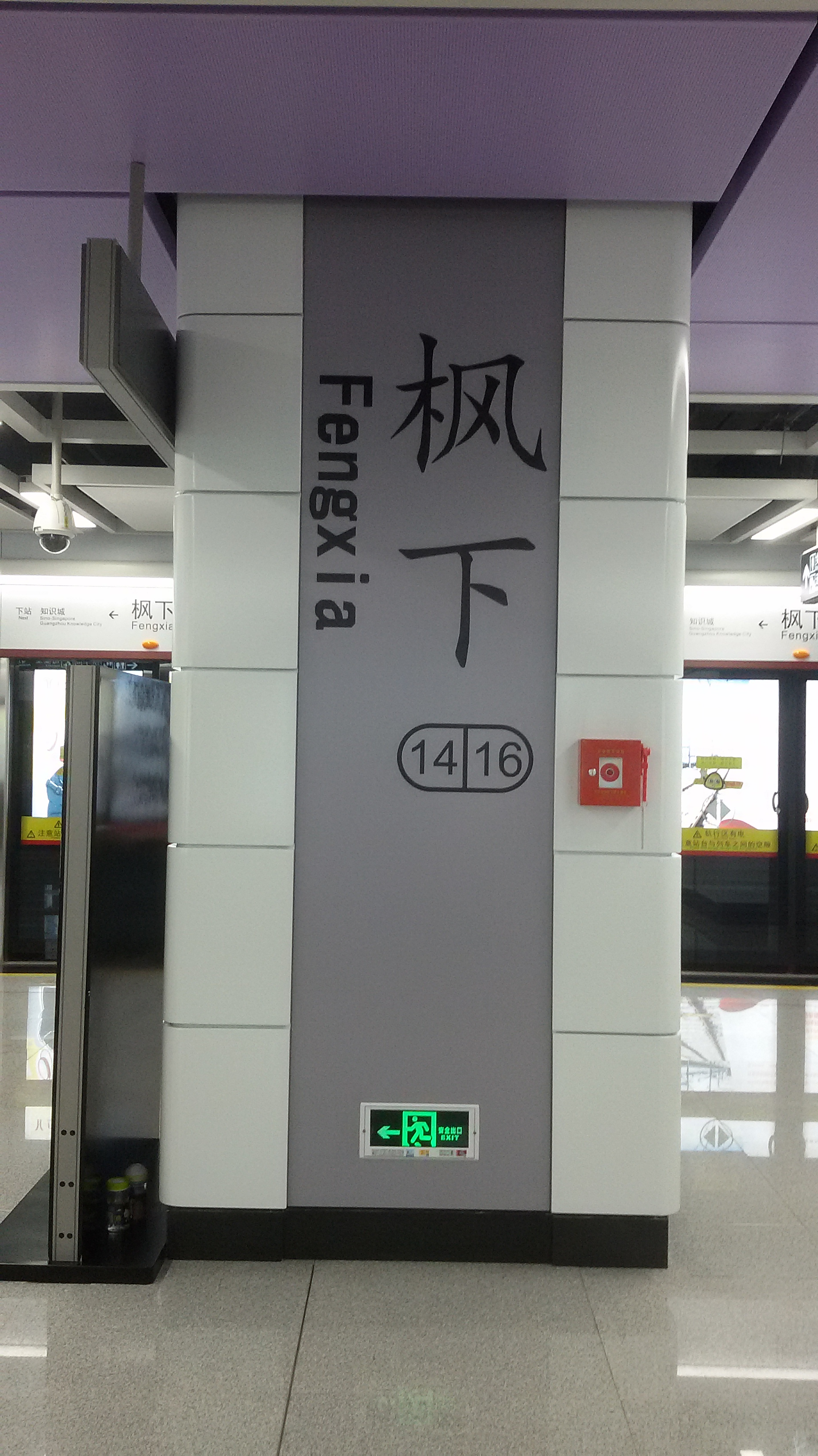 WORD on PILLAR for Fengxia Station in Guangzhou Metro